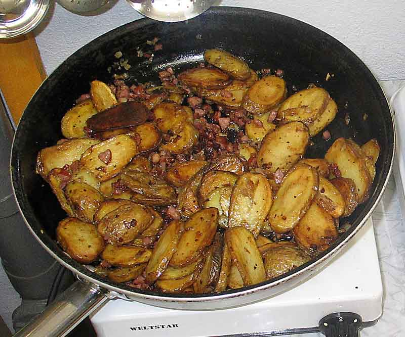 Fried potatoes in pan